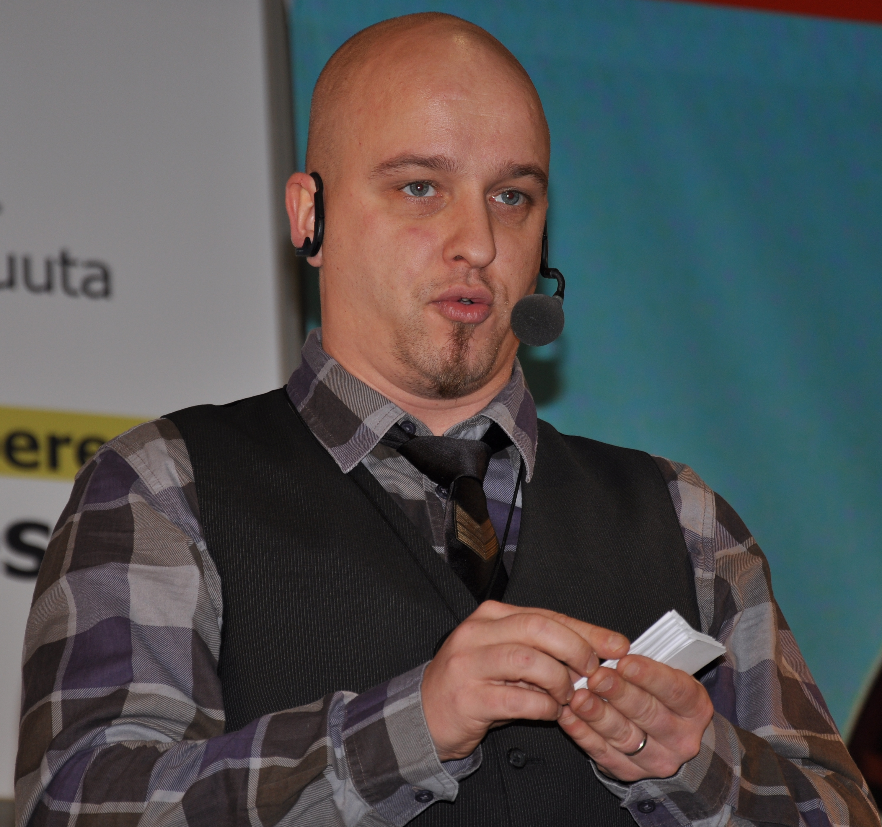 Finnish musician and TV presenter Sami Hintsanen at the Tampere Book Fair 2009.